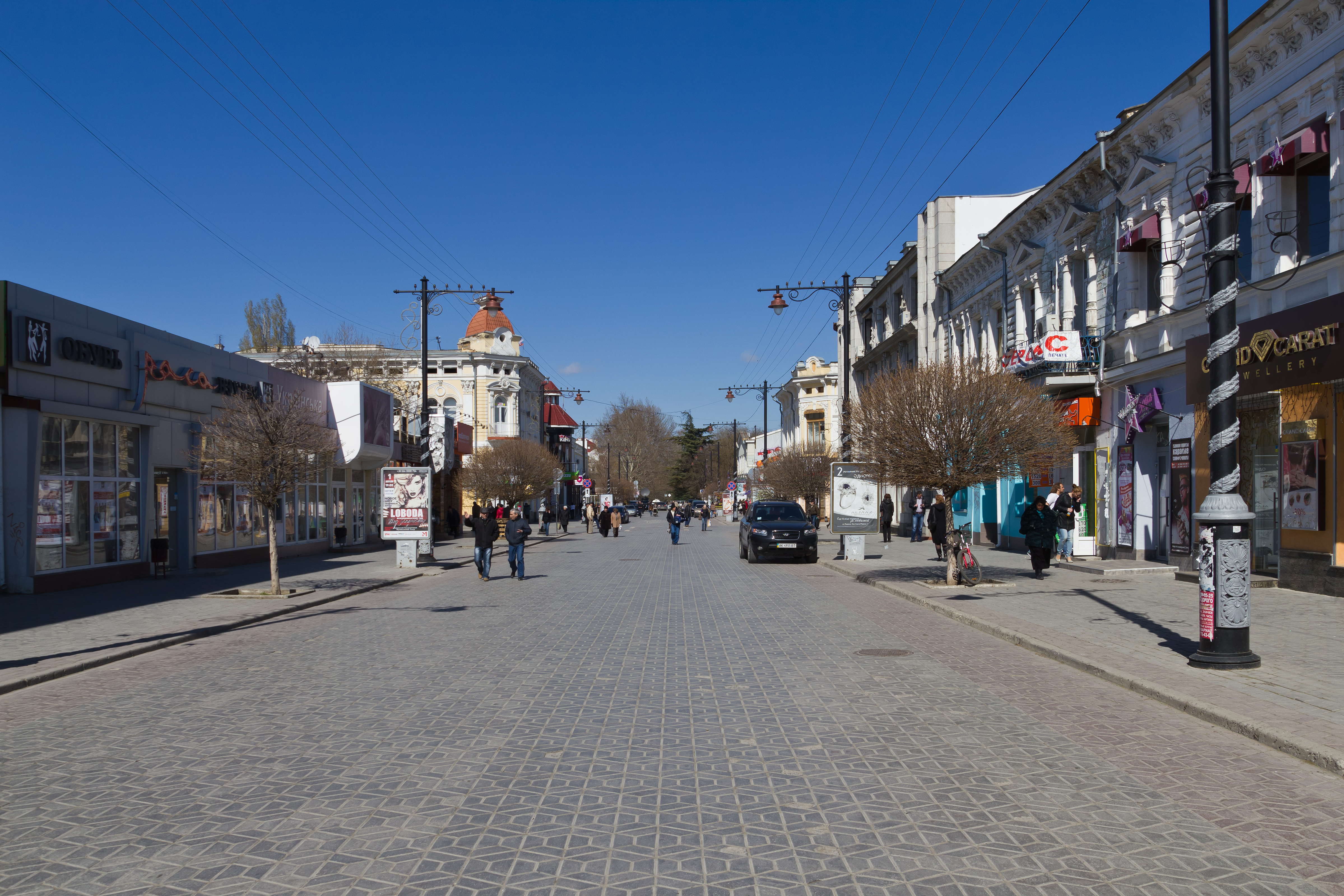 The Karl Marx Street in Simferopol, Crimean Peninsula.